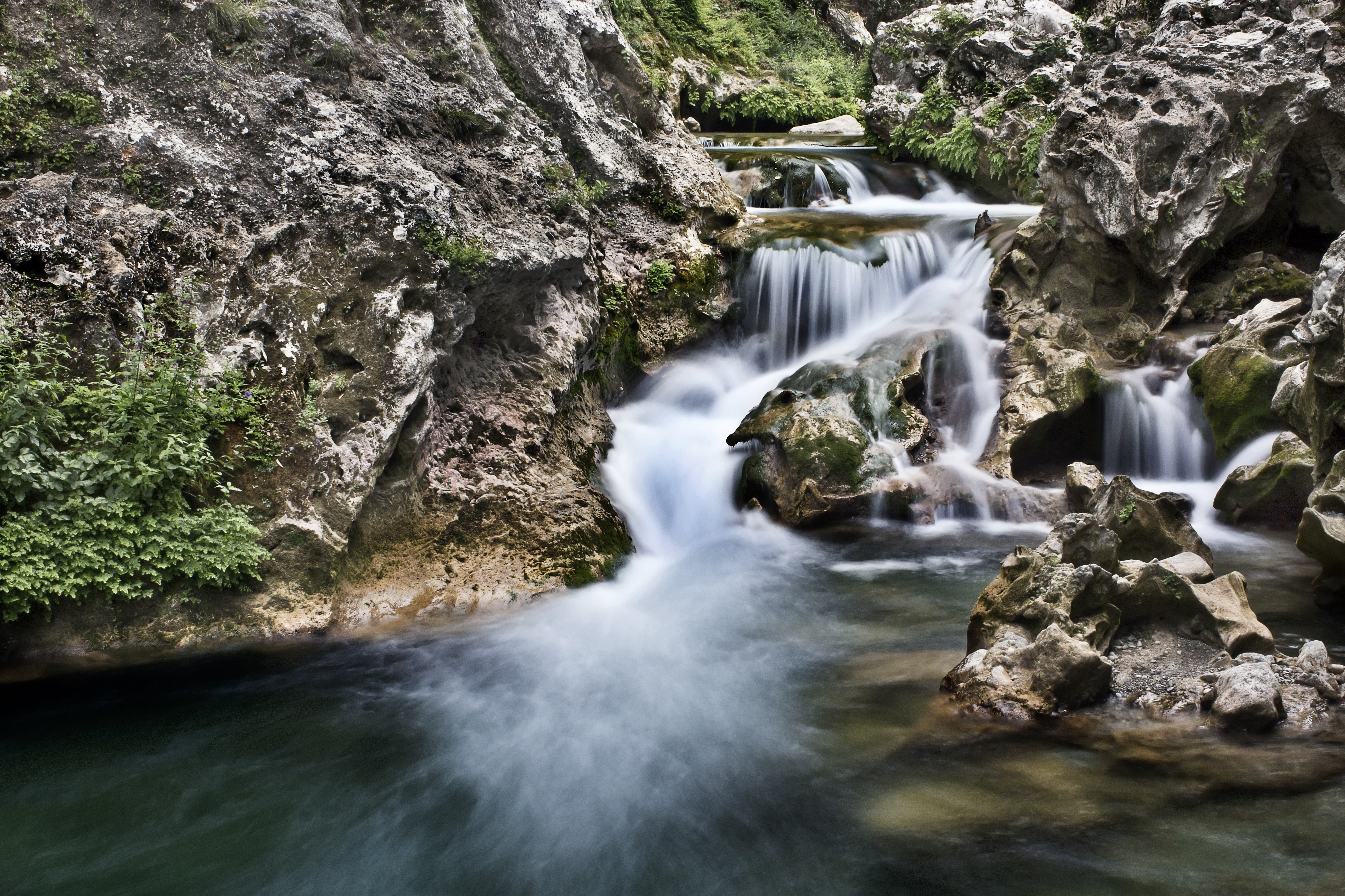 Akchour falls, Morocco